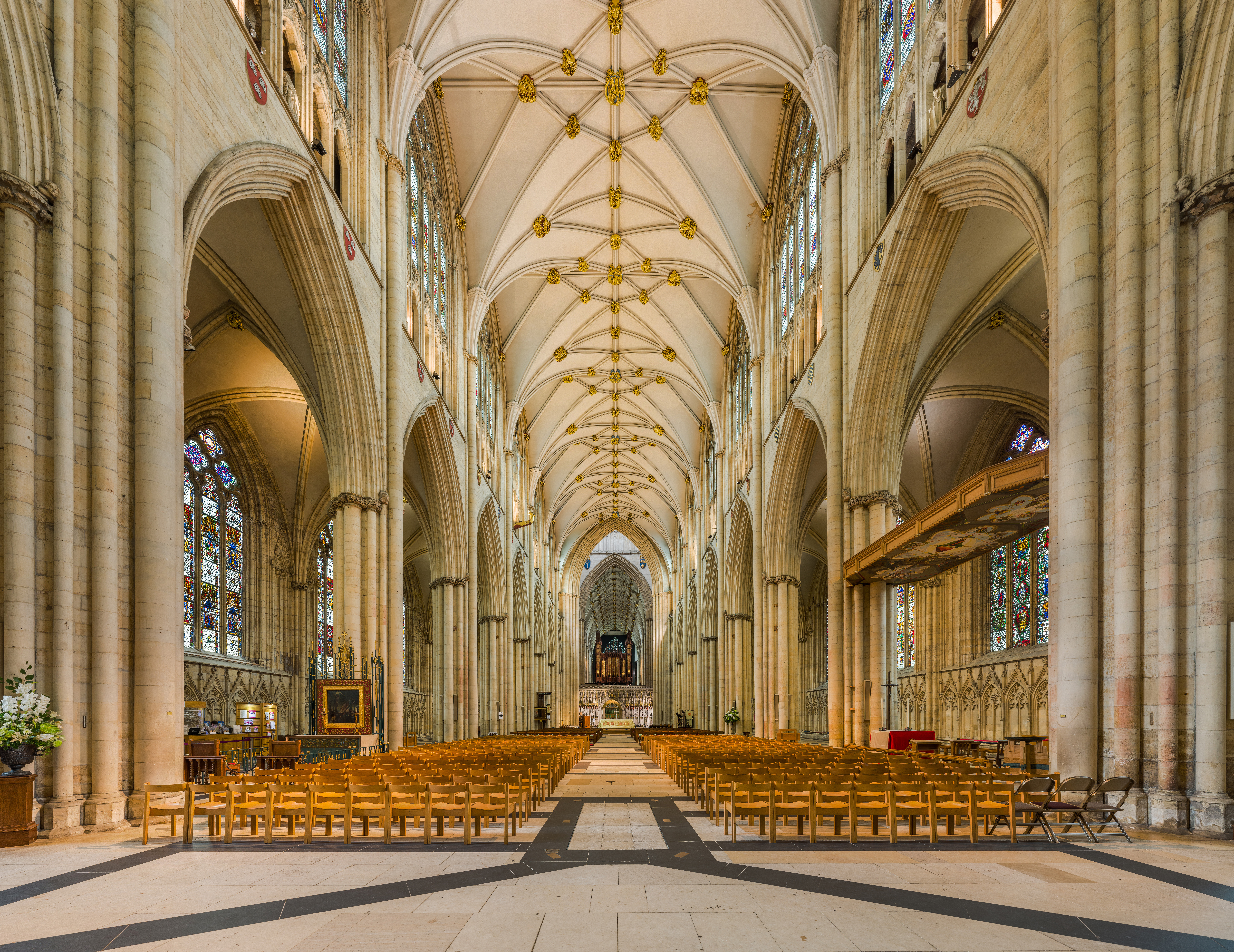 The nave of York Minster in North Yorkshire, England.